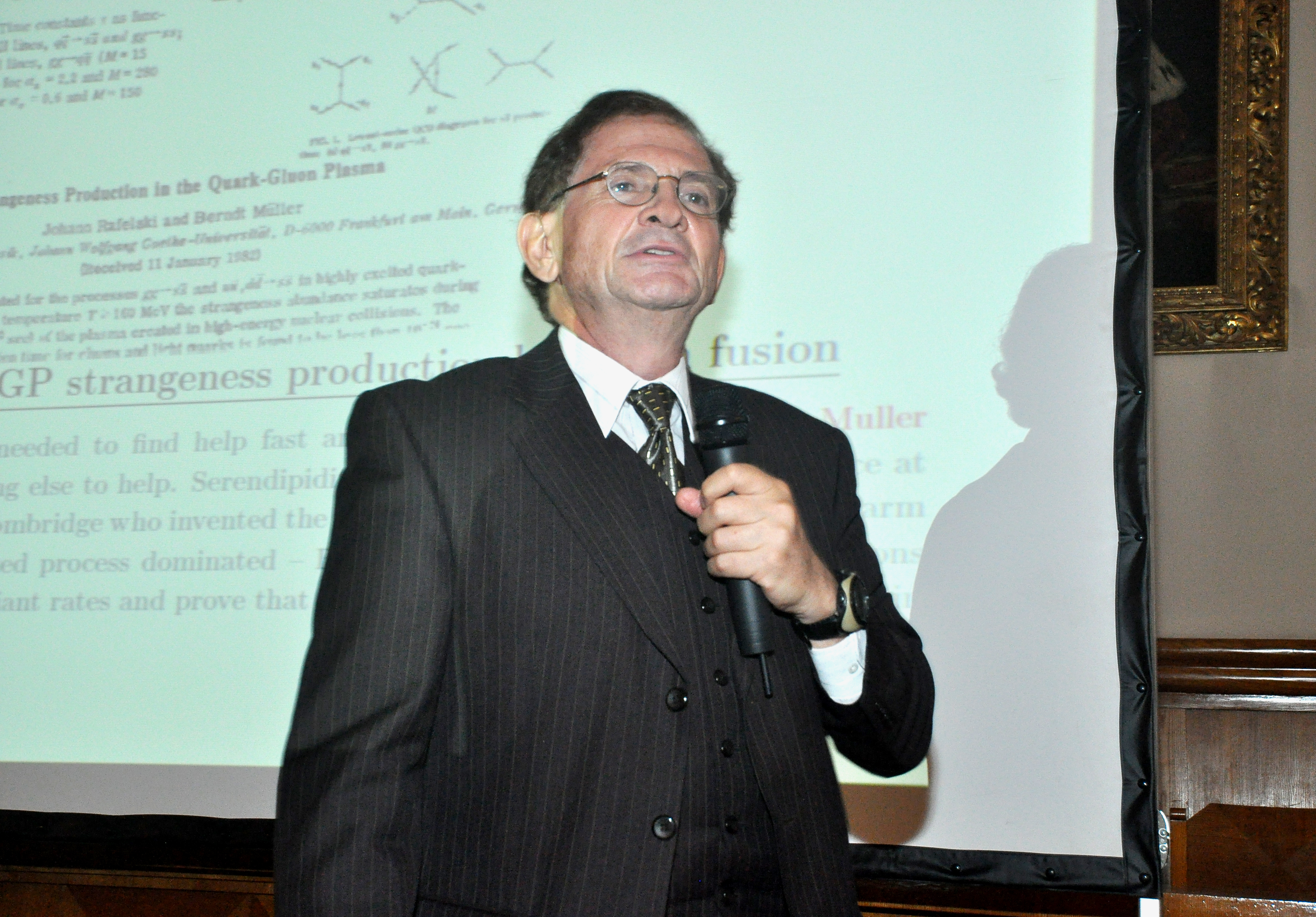 Johann Rafelski lecturing at the International Conference on Strangeness in Quark Matter, SQM2011, Krakow, Poland 18-24 September 2011.